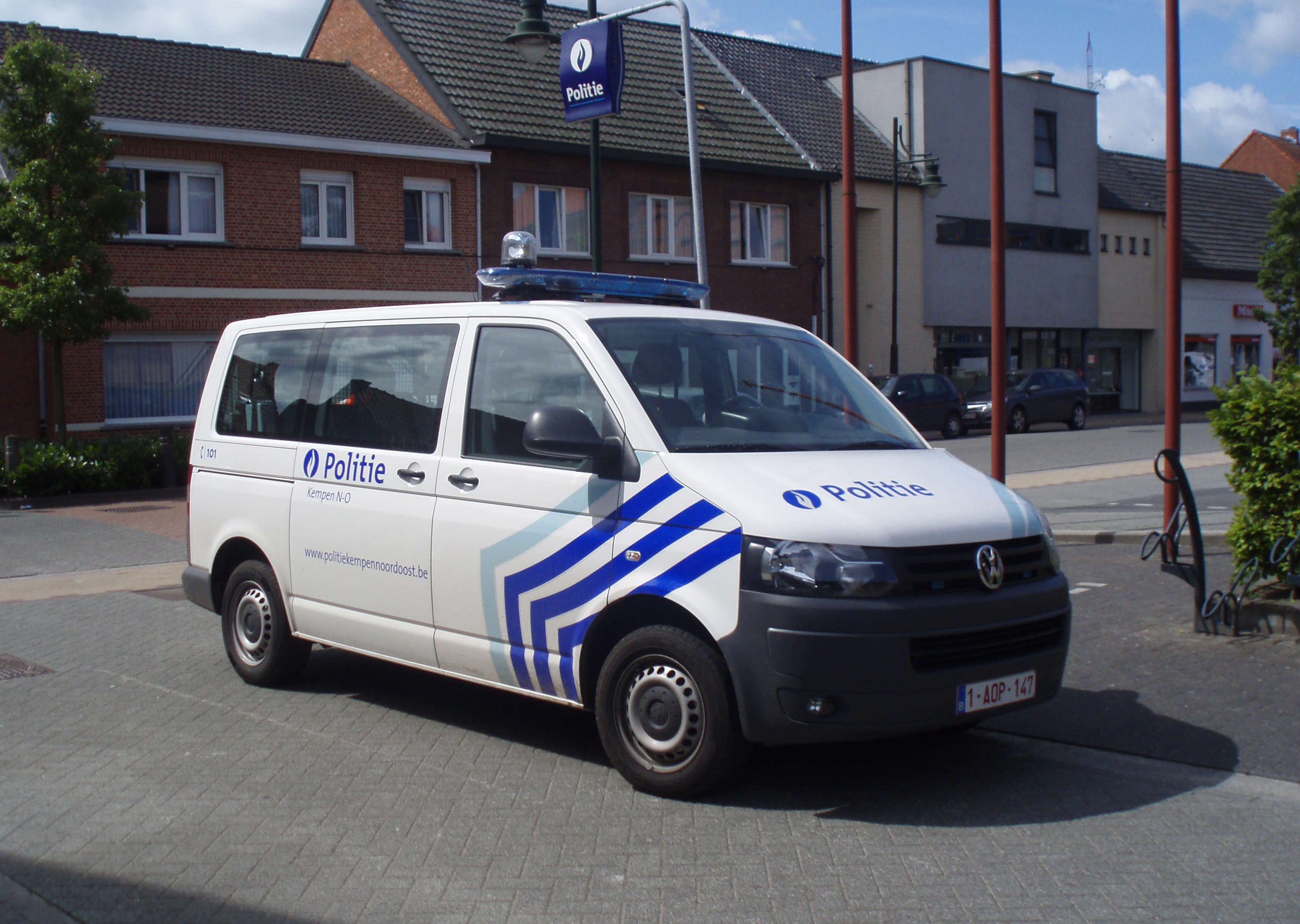 Police car Belgium, Kempen Noord-Oost, office Arendonk.